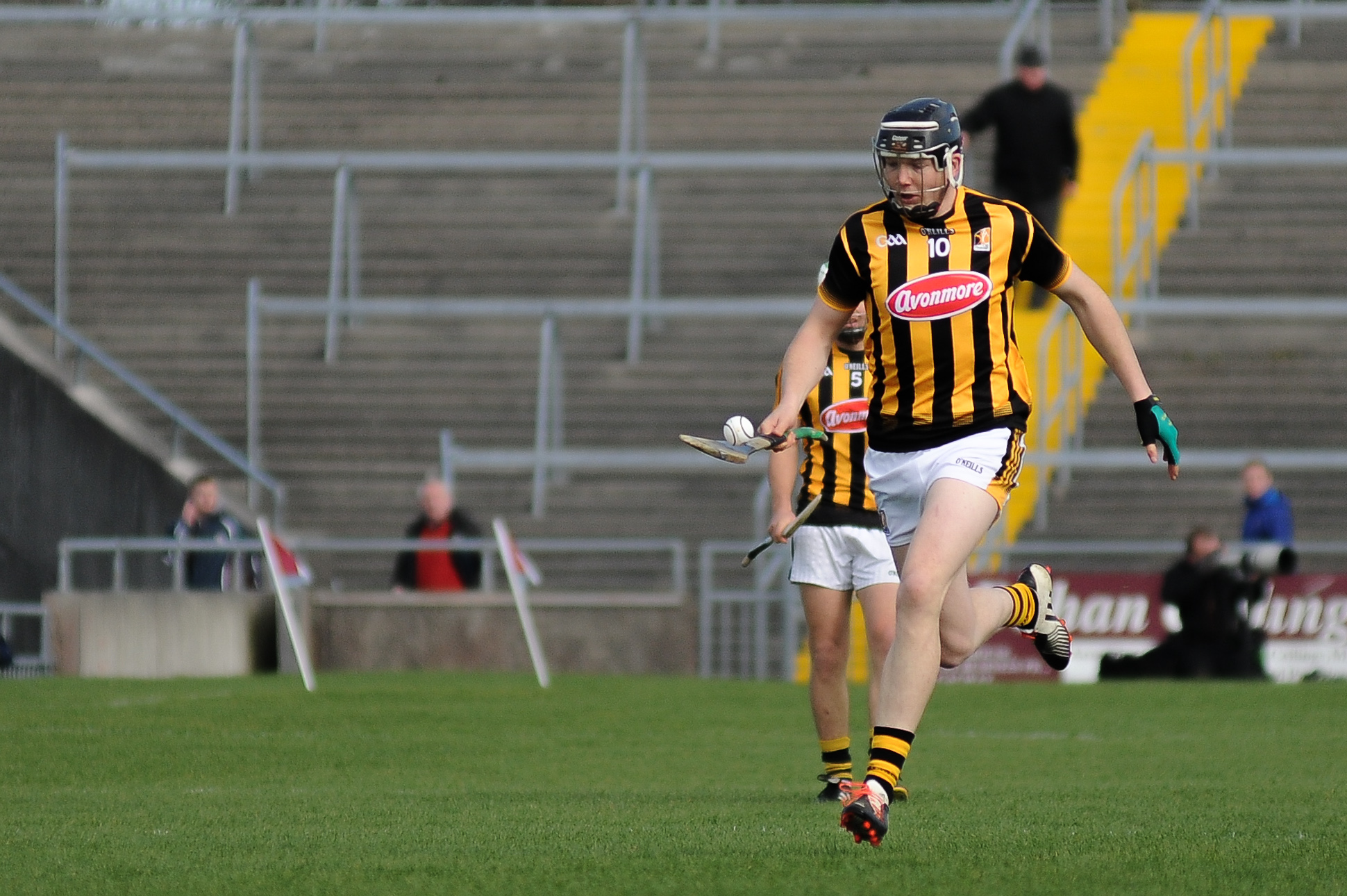 Walter Walsh in action for Kilkenny against Galway in the 2015 National Hurling League in Pearse Stadium